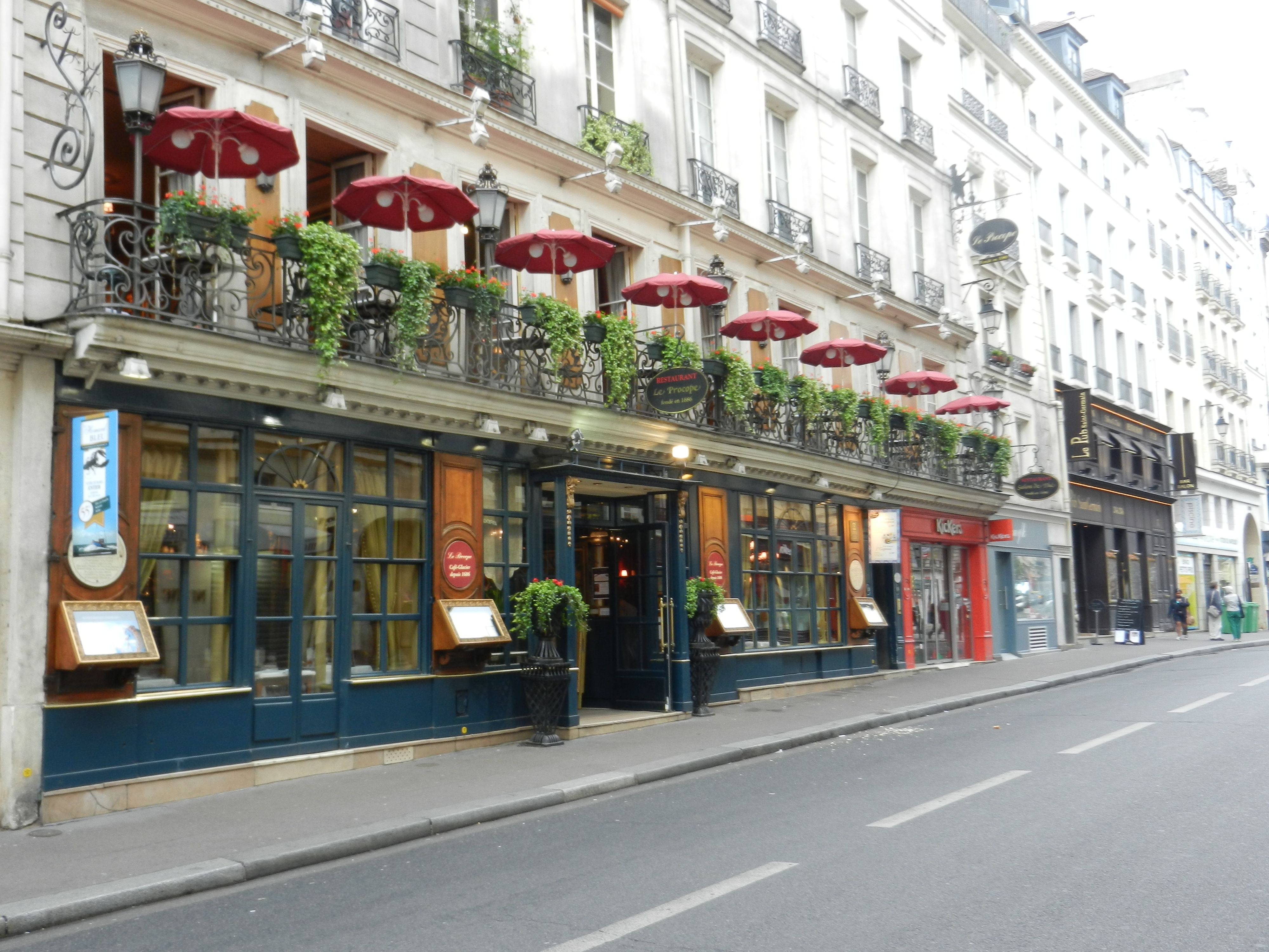 Le Procope - Rue de l'Ancienne Comédie